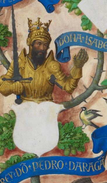 Peter I (1060-1104),King of Aragon; son of King Sancho Ramirez of Aragon, in a 16th-century miniature.